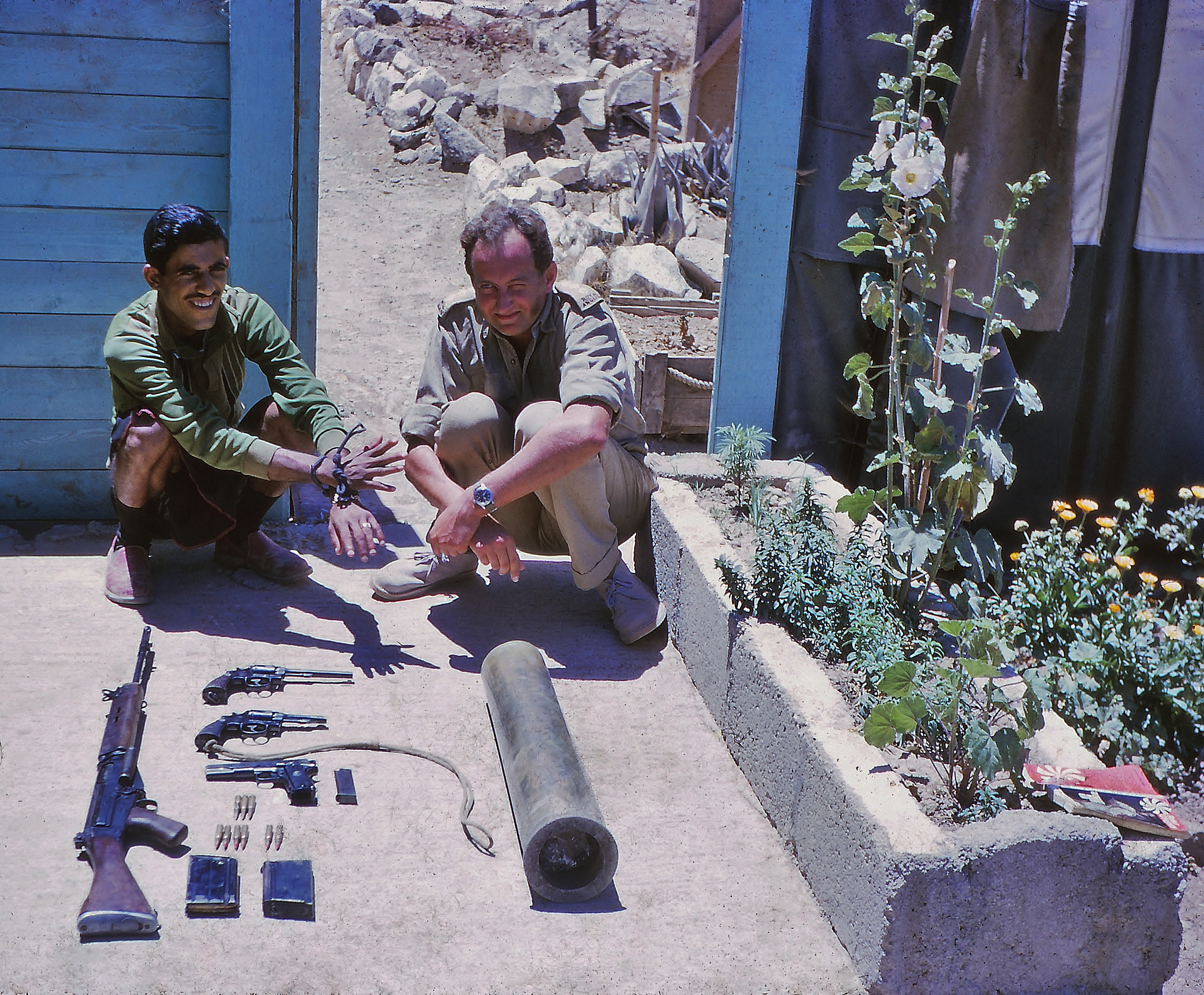 Captain Martin Lewis with an haul of terrorist weapons. Alongside Captain Lewis is the suspect associated with the arms on display and taken into custody.